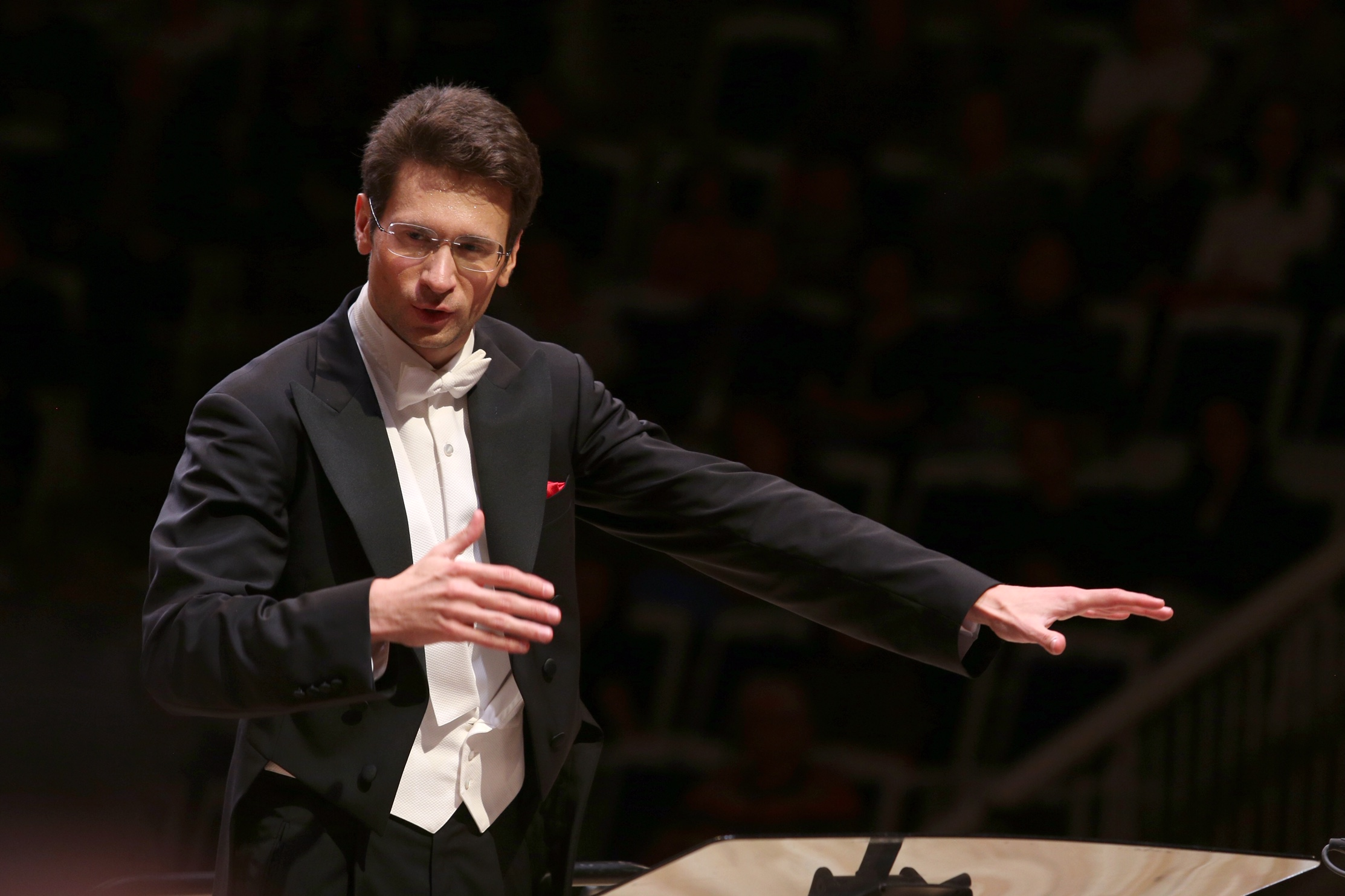 Mikhail Shehtman (Antonenko), Russian classical pianist and conductor